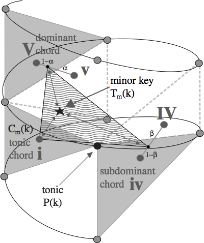 Part of the Spiral Array Model by Elaine Chew. Generating of a minor key representation as the center of effect of its i, iv/IV, and V/v chords, which are in turn generated as the center of effect of their defining pitches.